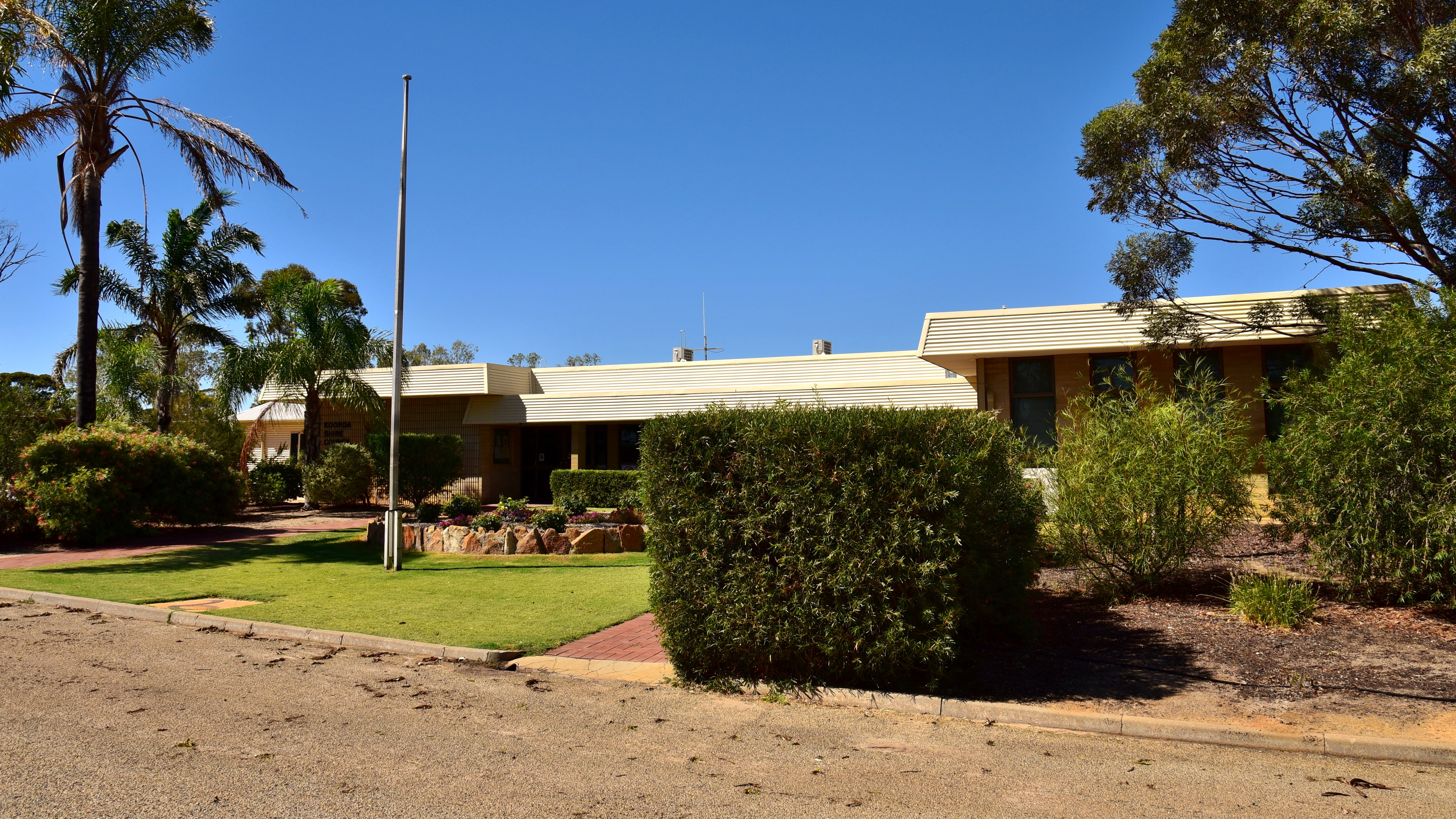 View of the Shire of Koorda administration building, library, and chambers, Koorda, Western Australia